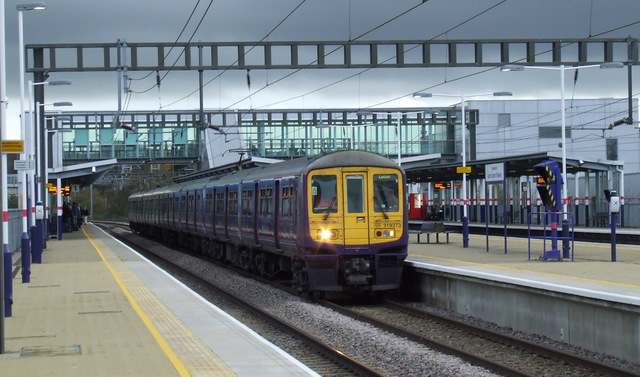 Class 319 train number 319373 pulls into Platform 2.